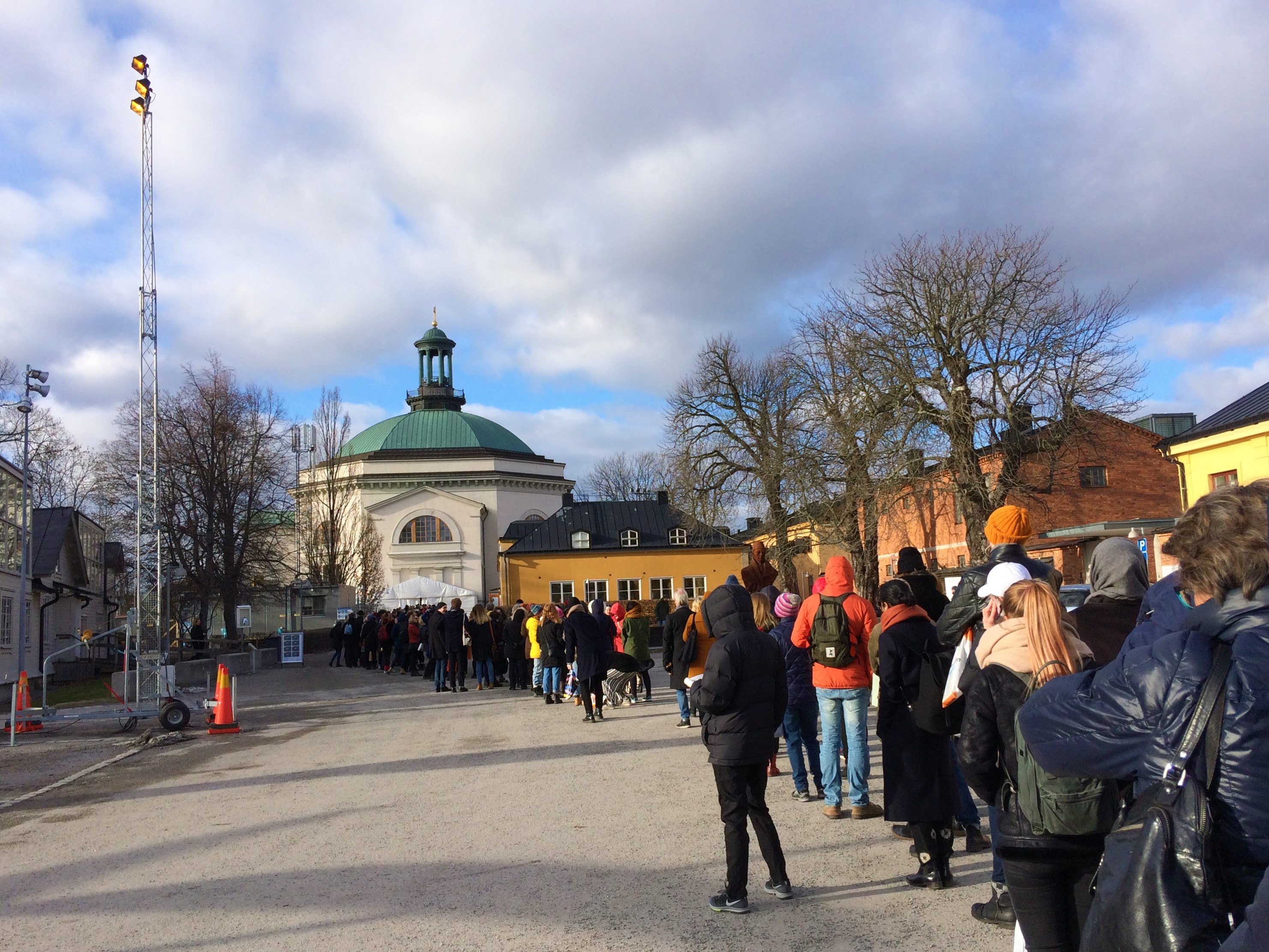 Line of visitors to Marina Abramović's performance "The Cleaner" at Eric Ericson Hall at Skeppsholmen, Stockholm, Sweden, Thursday March 3, 2017, around 14:00.